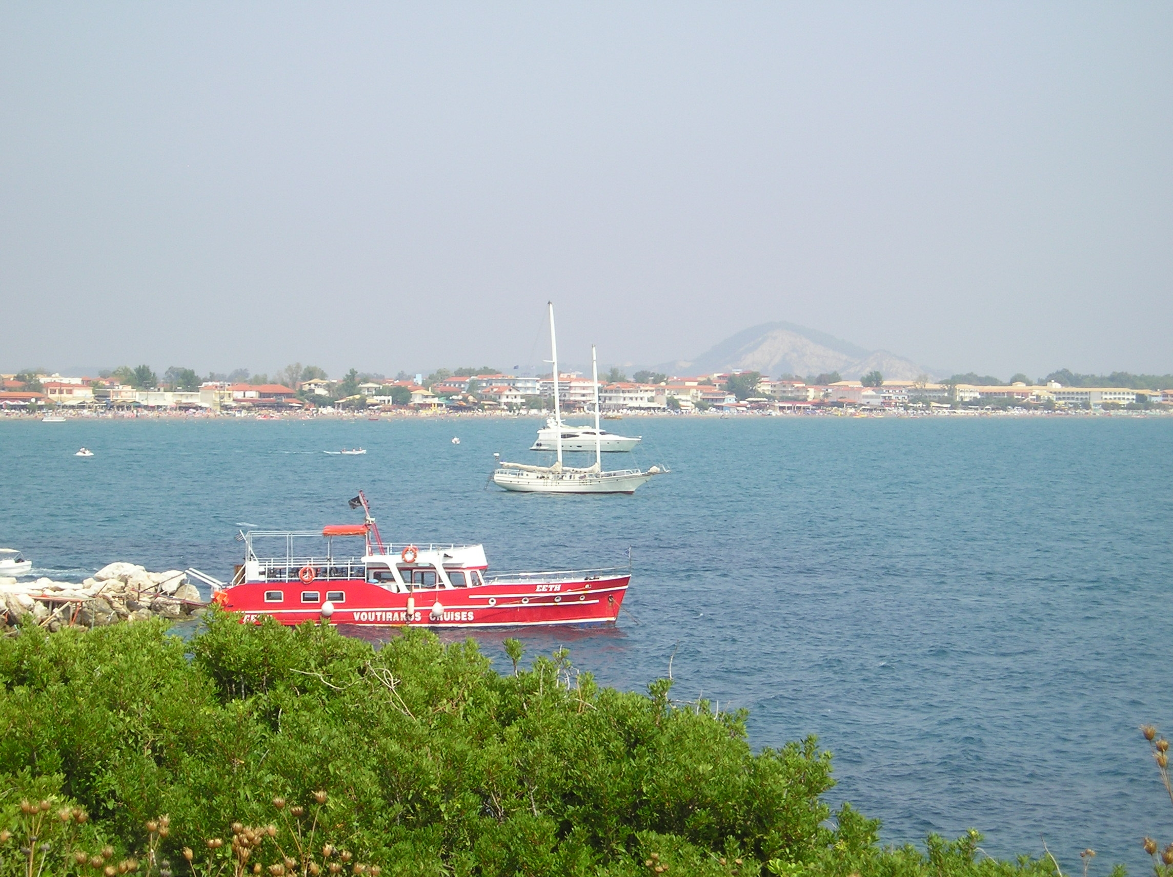 Zákynthos